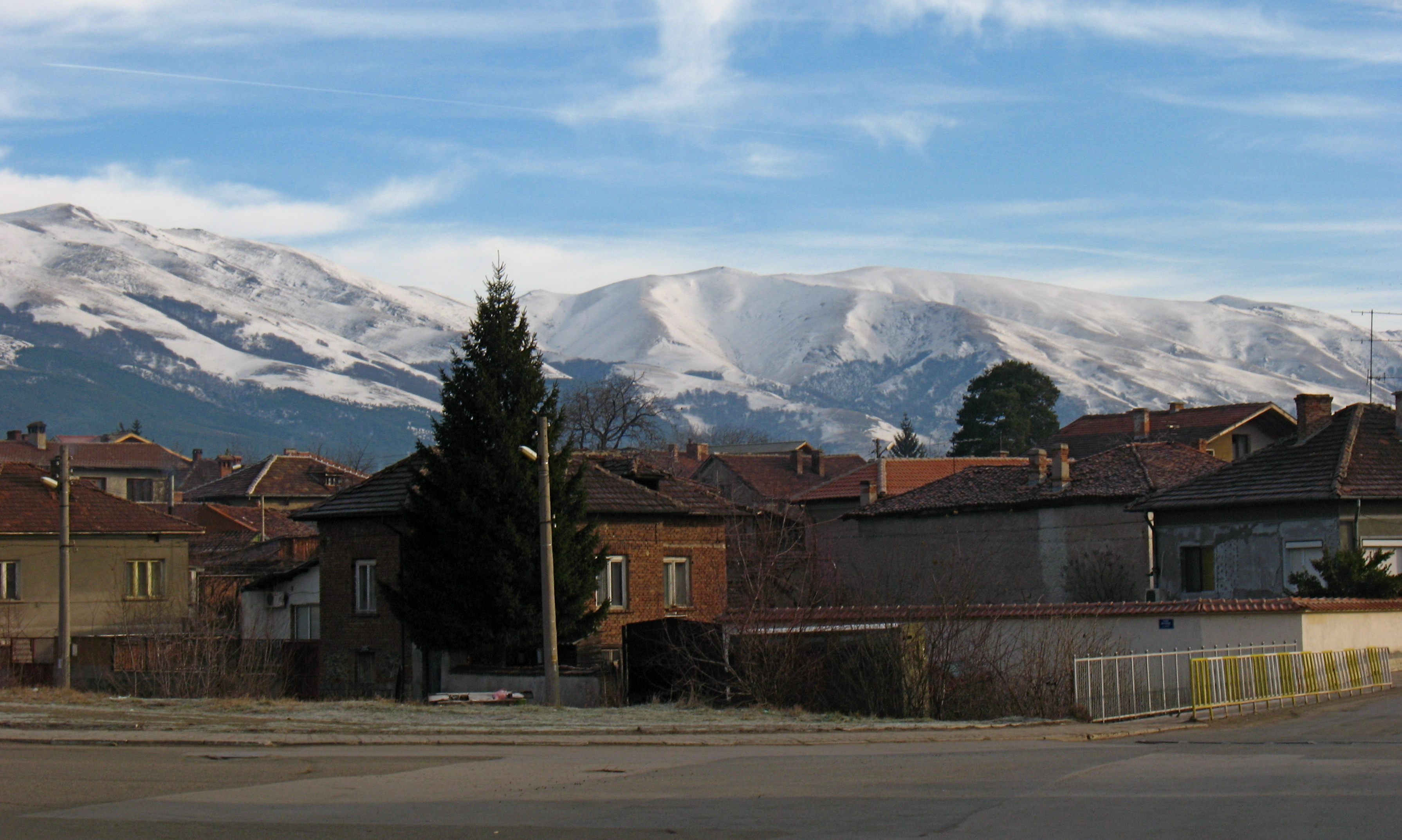 Pirdop below Stara Planina